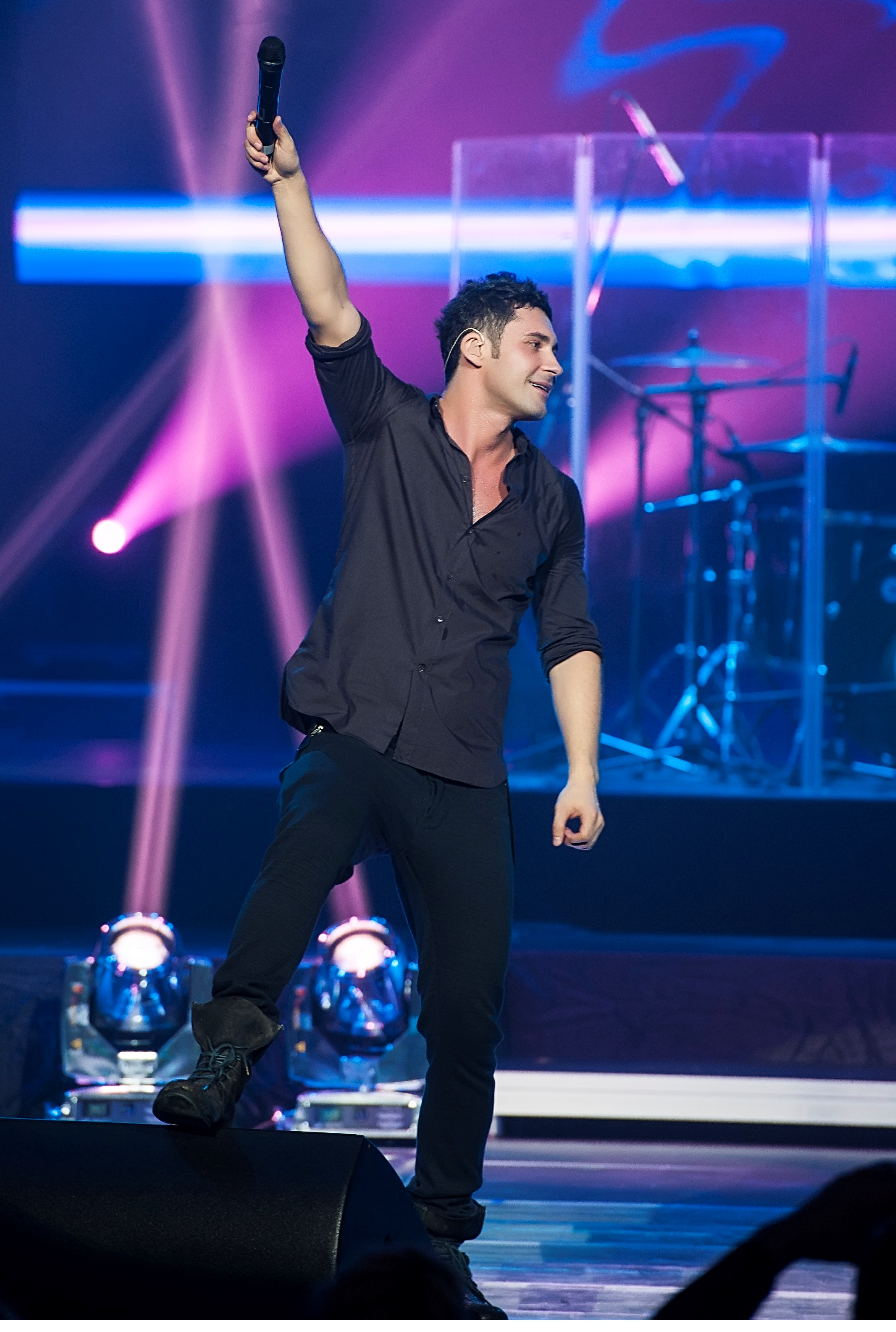 Dan Balan.